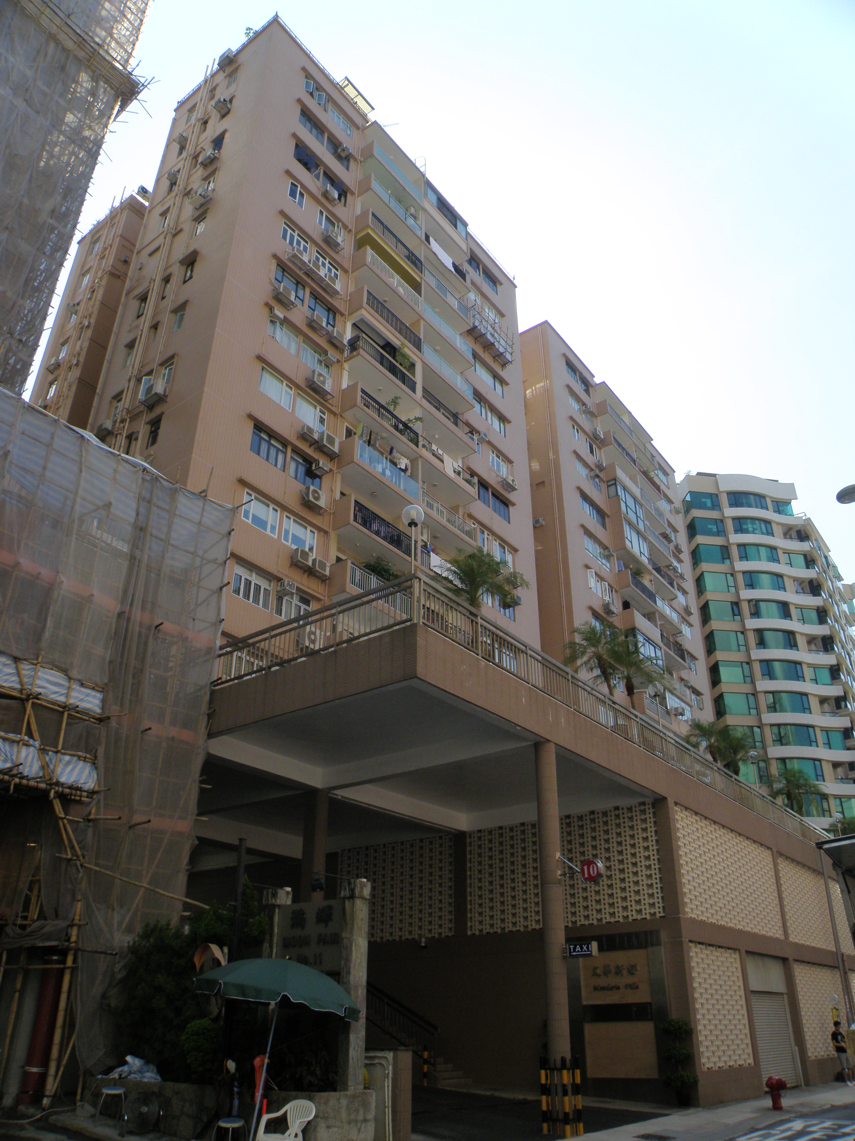 Mandarin Villa in Wan Chai, Hong Kong.